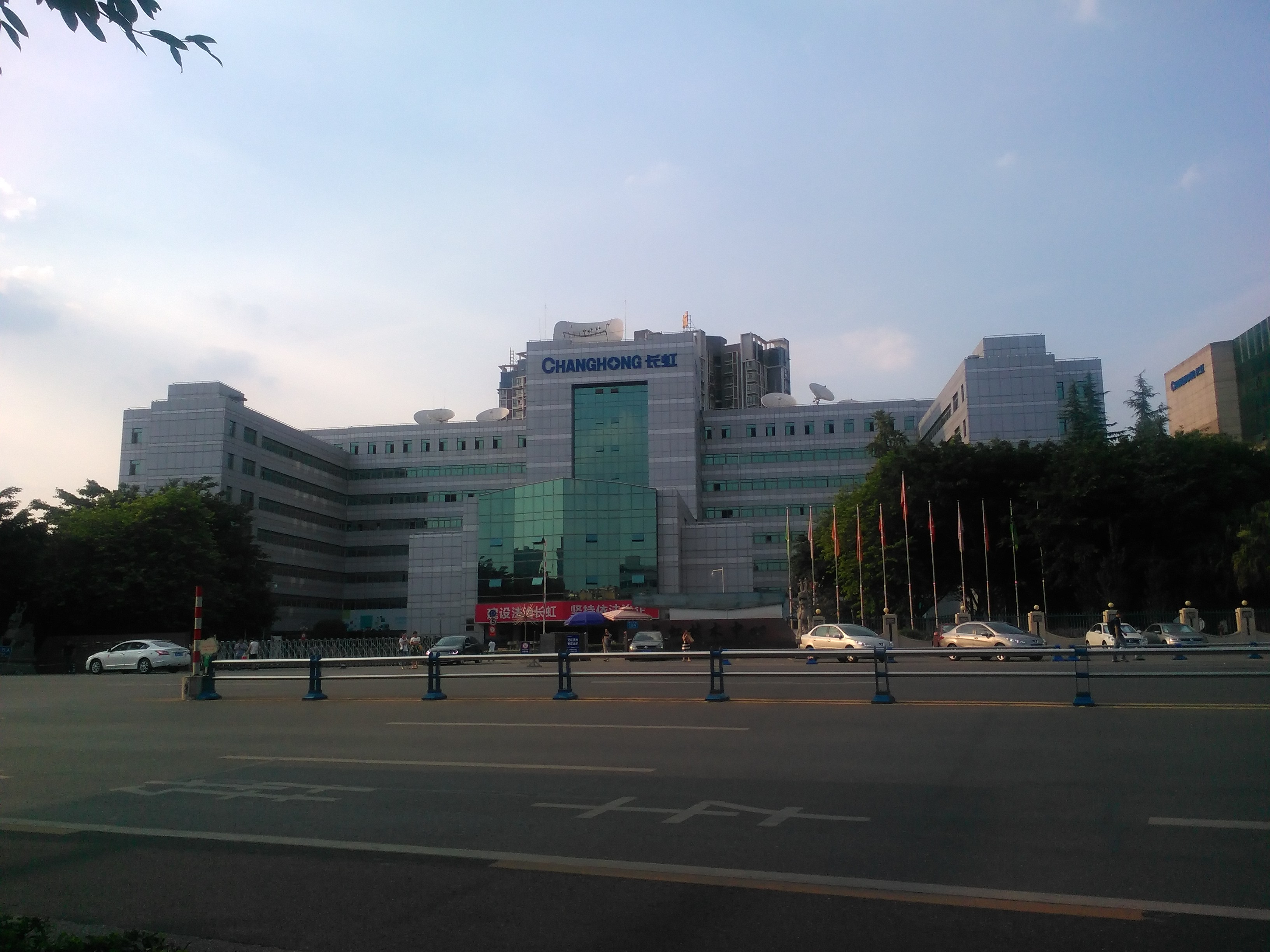 Changhong headquarters